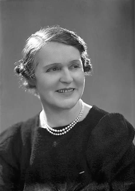 Studio photo